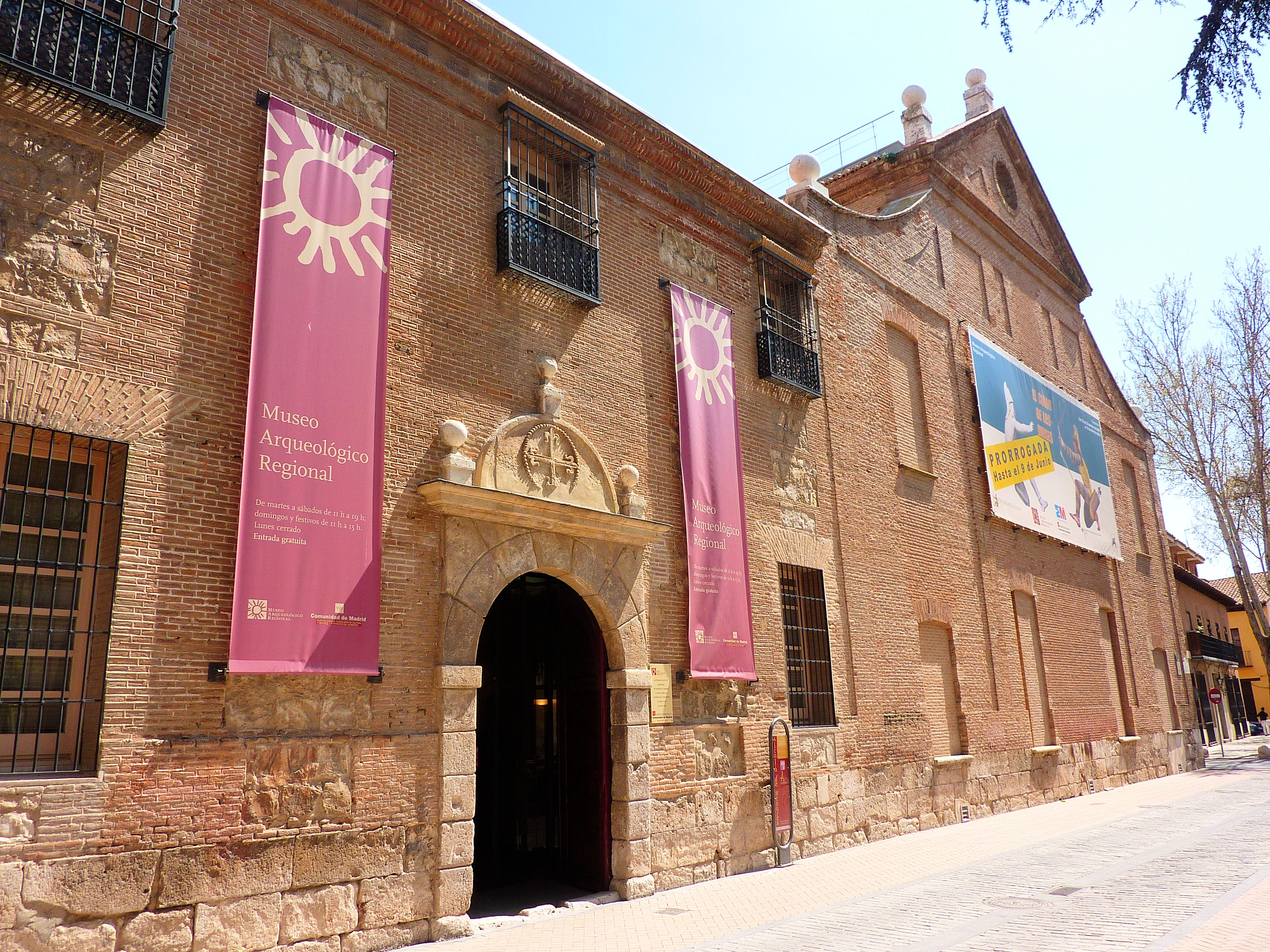 Façade of the Regional Archeological Museum of the Community of Madrid, former Convent of the Virgin, Alcalá de Henares.